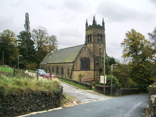 St John's Church, Warley, Halifax, West Yorkshire, England, designed by William Swinden Barber 1877.